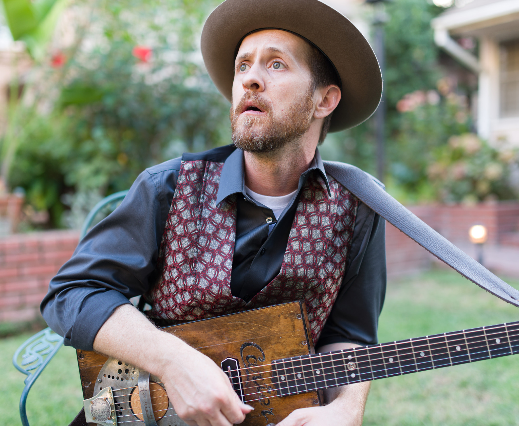 500px provided description: Guitarist Brad Carter underwent deep brain stimulation on May 23 to ease the symptoms of essential tremors, a disease similar to Parkinson?s disease that has plagued him for seven years. The procedure, the 500th deep brain stimulation performed at Ronald Reagan UCLA Medical Center, garnered significant media attention. (Los Angeles, CA)